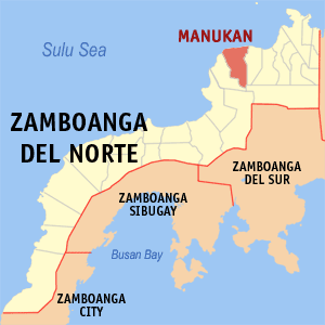 Map of the Zamboanga del Norte showing the location of Manukan